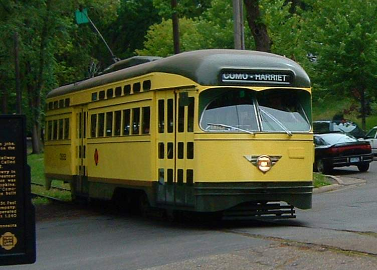 PCC streetcar once owned by Twin City Rapid Transit, now operated by the Minnesota Transportation Museum in Minneapolis, Minnesota. This is car number 322.